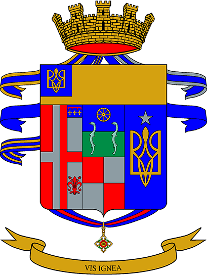 Coat of Arms of the 8° Artillery Regiment; Italian Army.